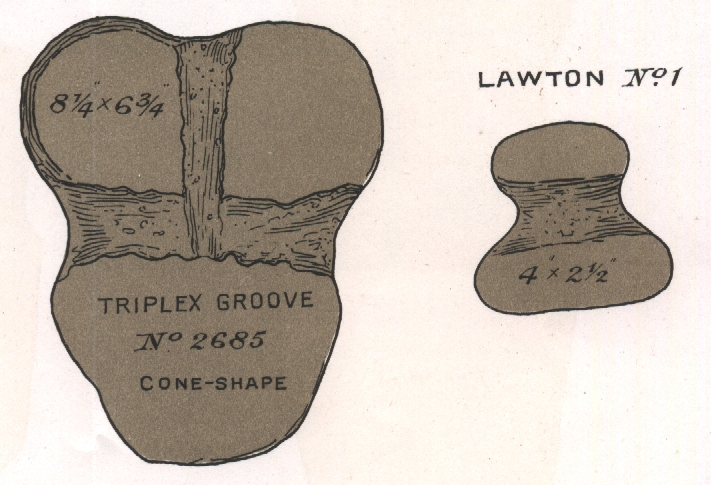 Scanned from Roeder (1902) [see references in Alderley Edge article].